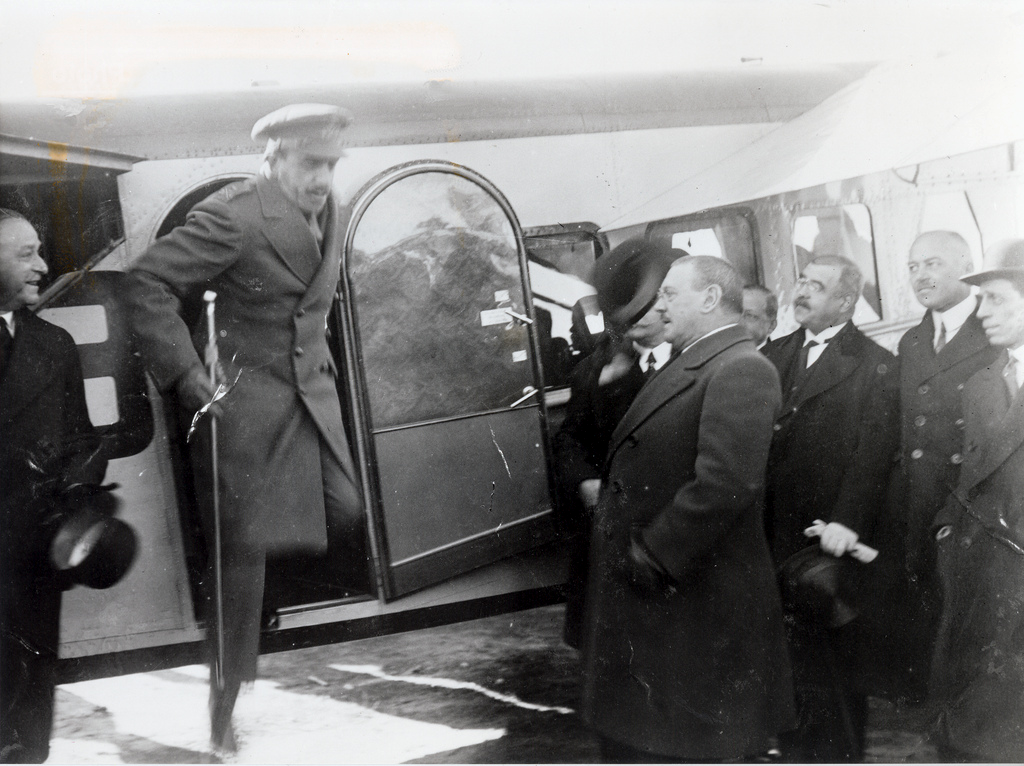 The launch of Iberia's first flight, patronized by King Alfonso XIII, on the Madrid-Barcelona route out of Madrid's Carabanchel Alto Aerodrome. This flight, along with another that simultaneously departed from Barcelona to Madrid, was Iberia's first foray into commercial aviation.